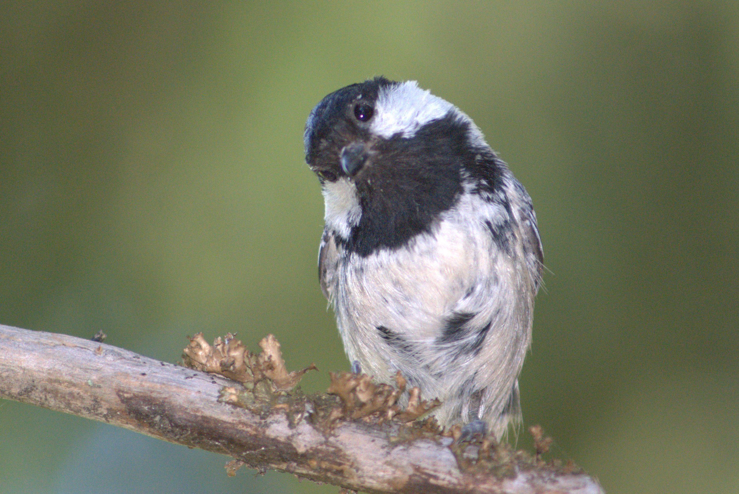 Coal Tit